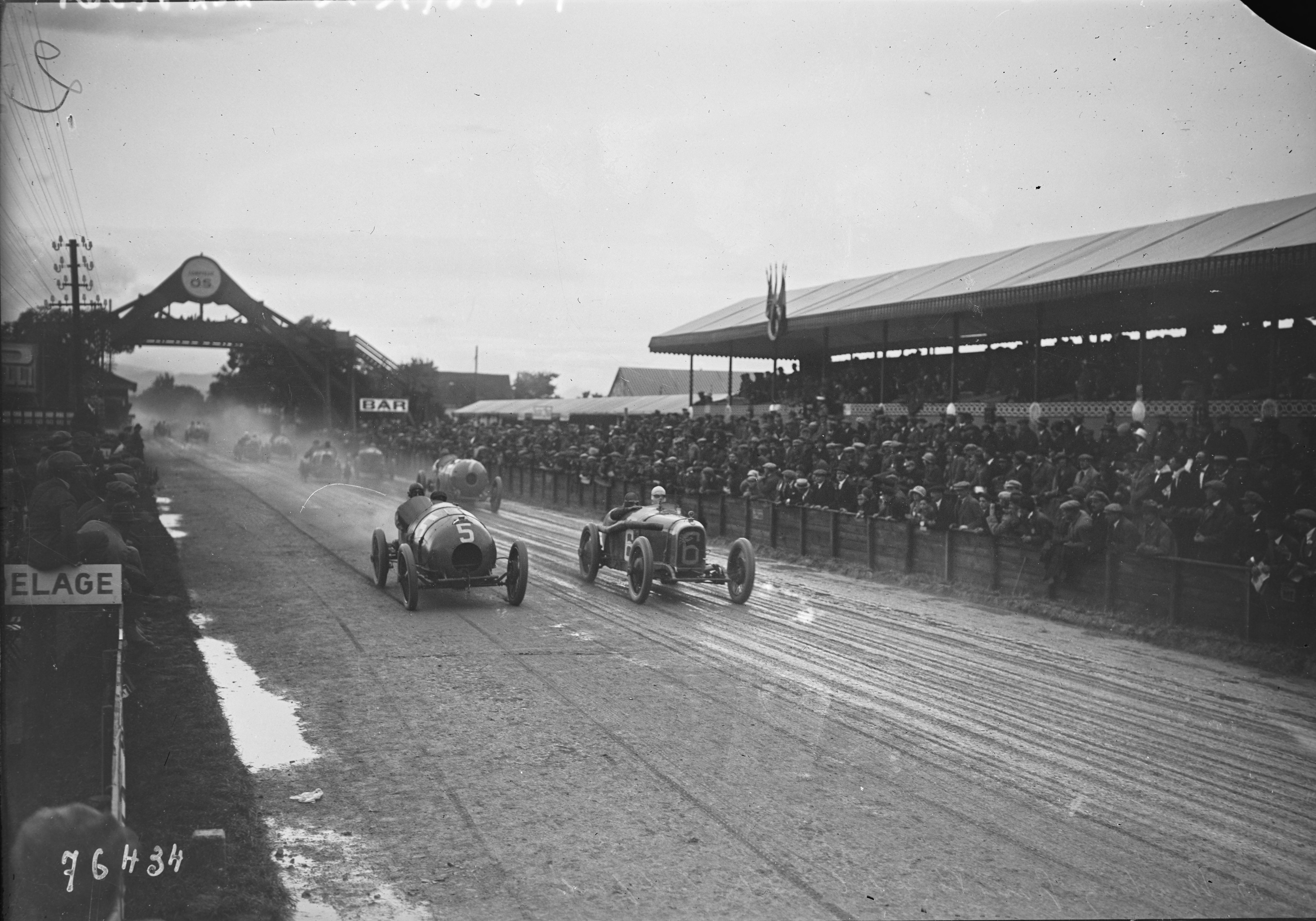 Start at the 1922 French Grand Prix